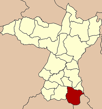 Map of Khon Kaen Province, Thailand, highlighting the district Nong Song Hong (อำเภอหนองสองห้อง)